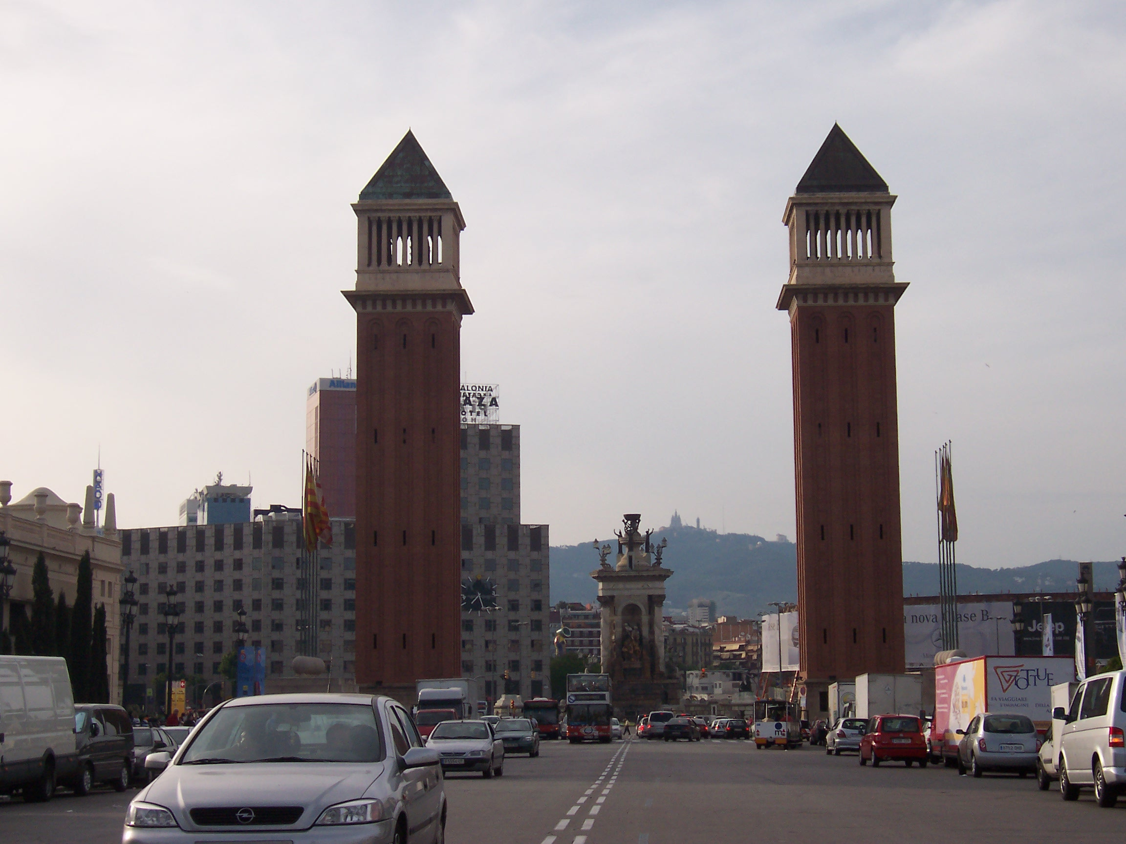 Spain Square, in Barcelona.